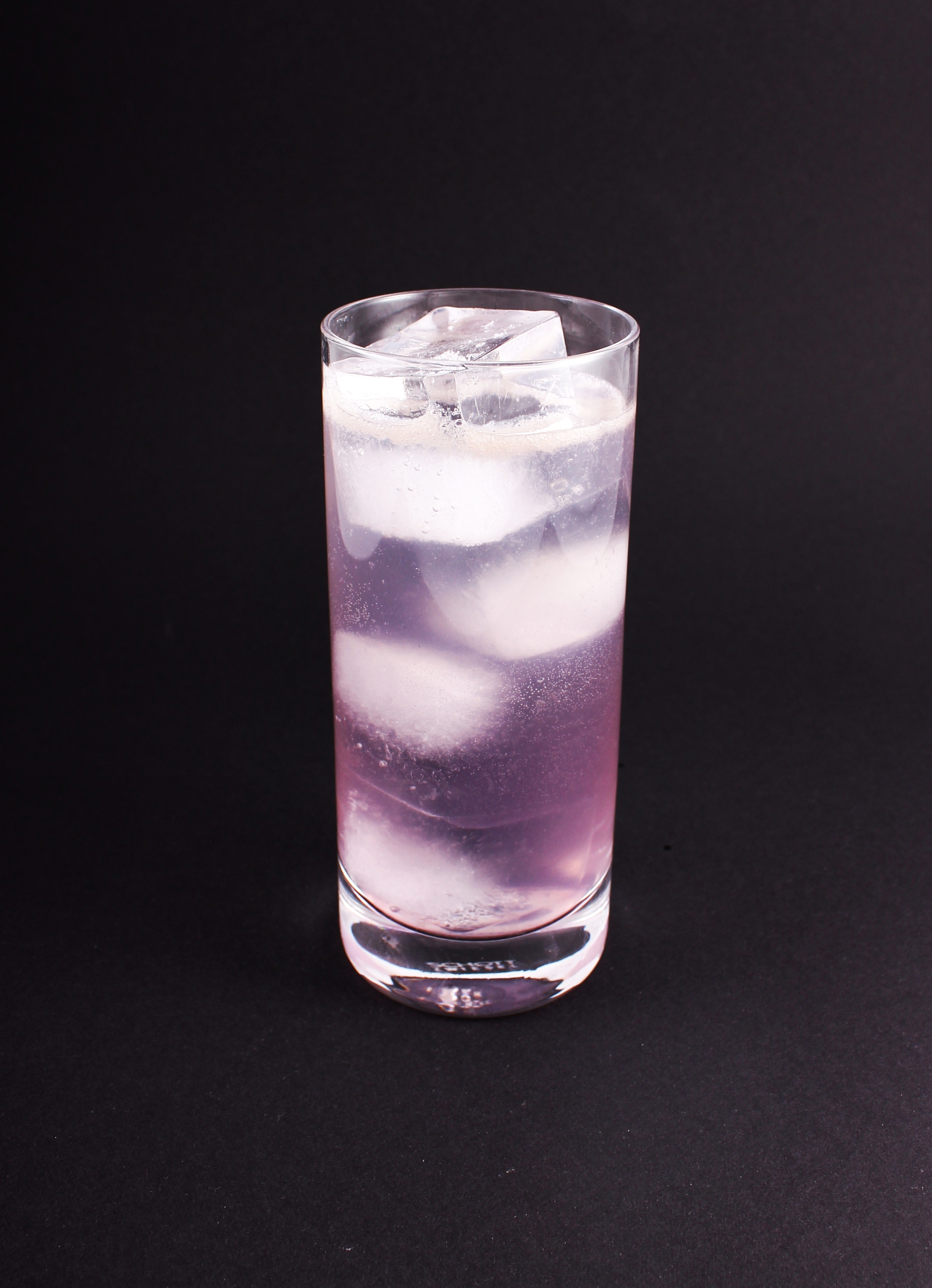 The Violet Fizz is a cocktail that is made like a fizz, using Crème de Violette Liqueur.